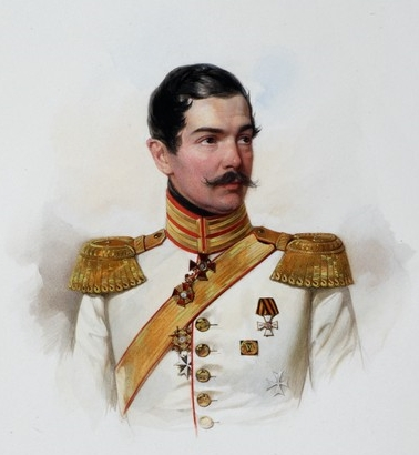 Pyotr Petrovich Lanskoy